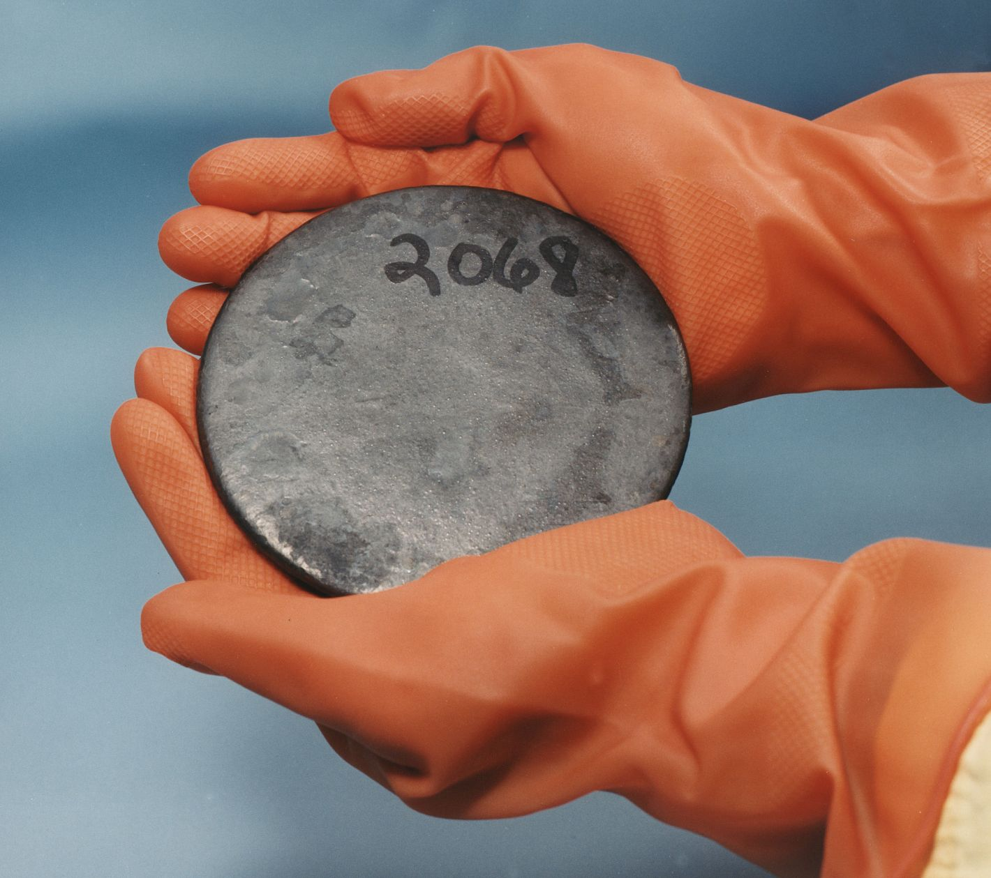 A billet of highly enriched uranium that was recovered from scrap processed at the Y-12 National Security Complex Plant.